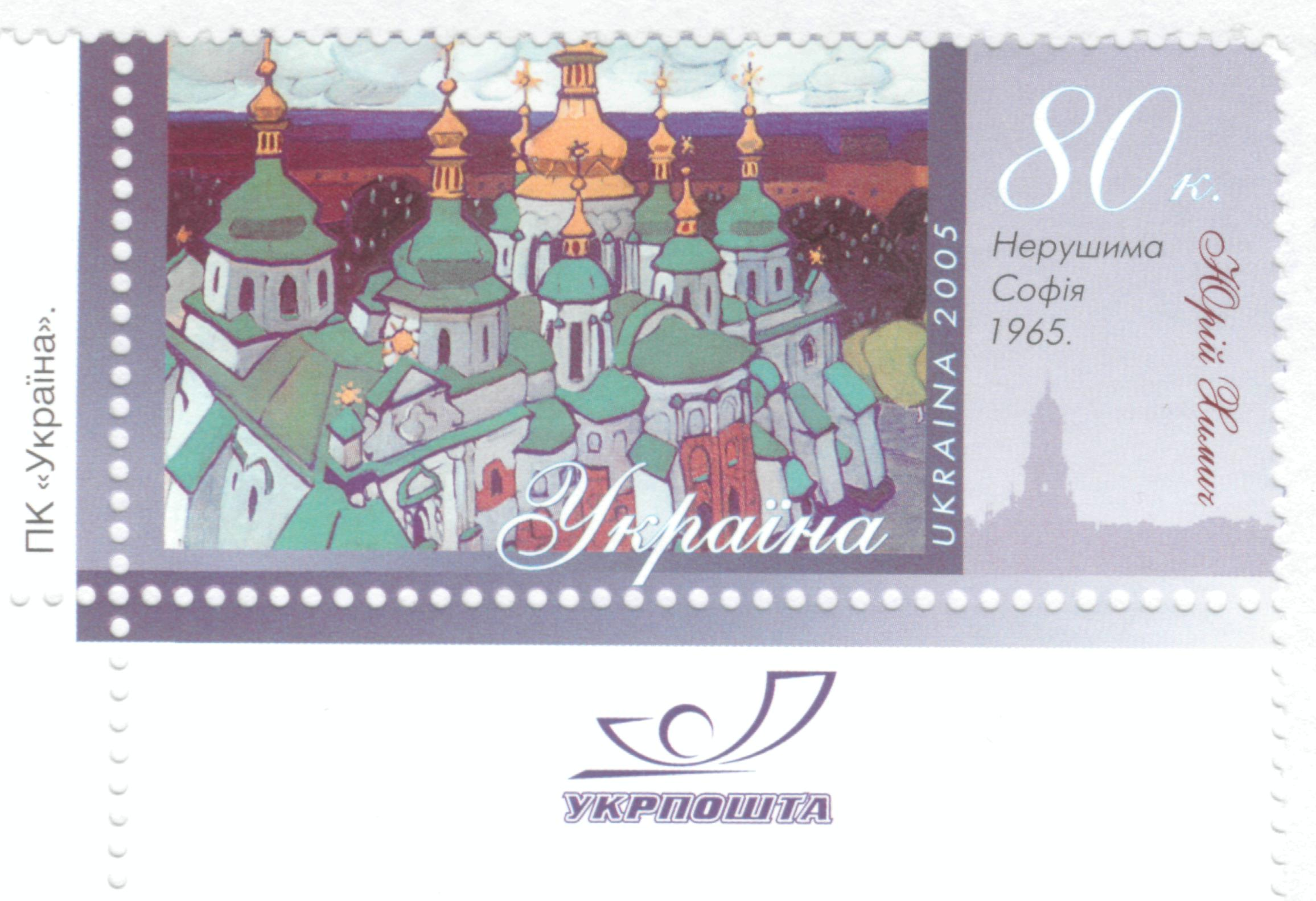 The Indestructible Sofia (of Kiev). Painting by Yuri Khimich, 1965. Ukrainian stamp, 2005, 80 kop.